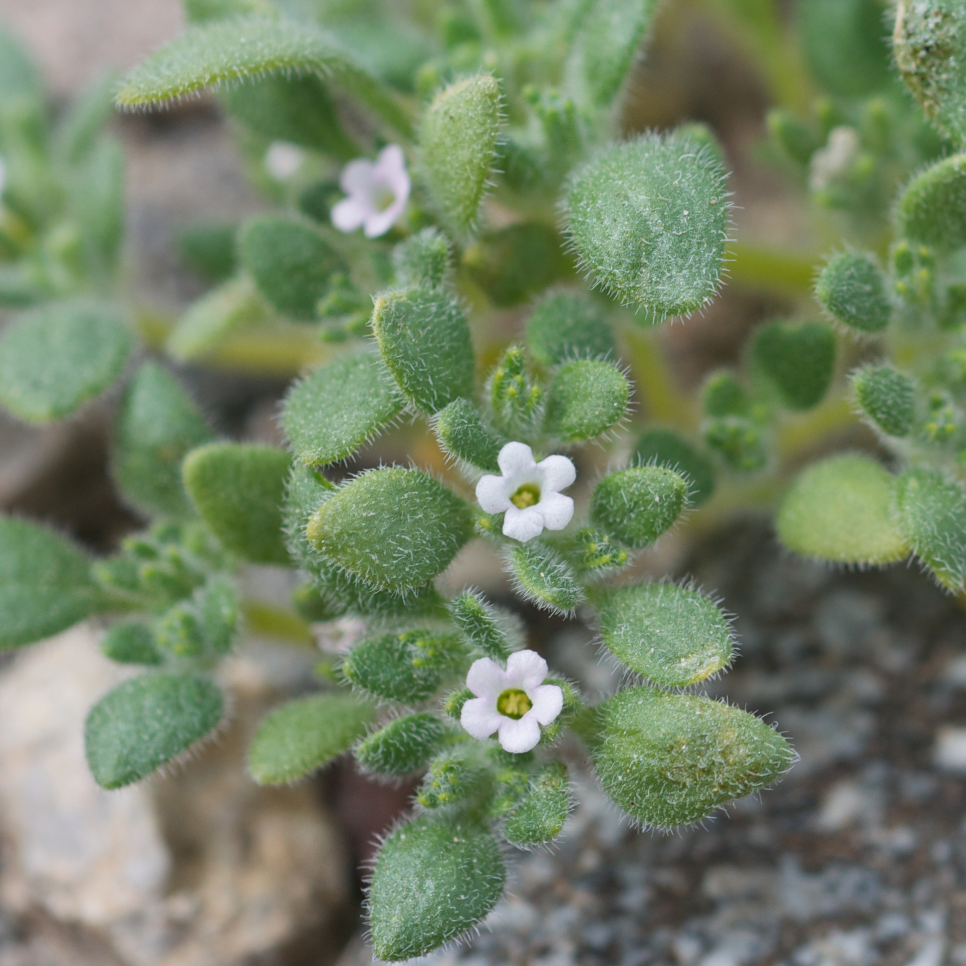 Species from California, Arizona, Nevada Photographed in a canyon off Badwater Road, Death Valley National Park, California